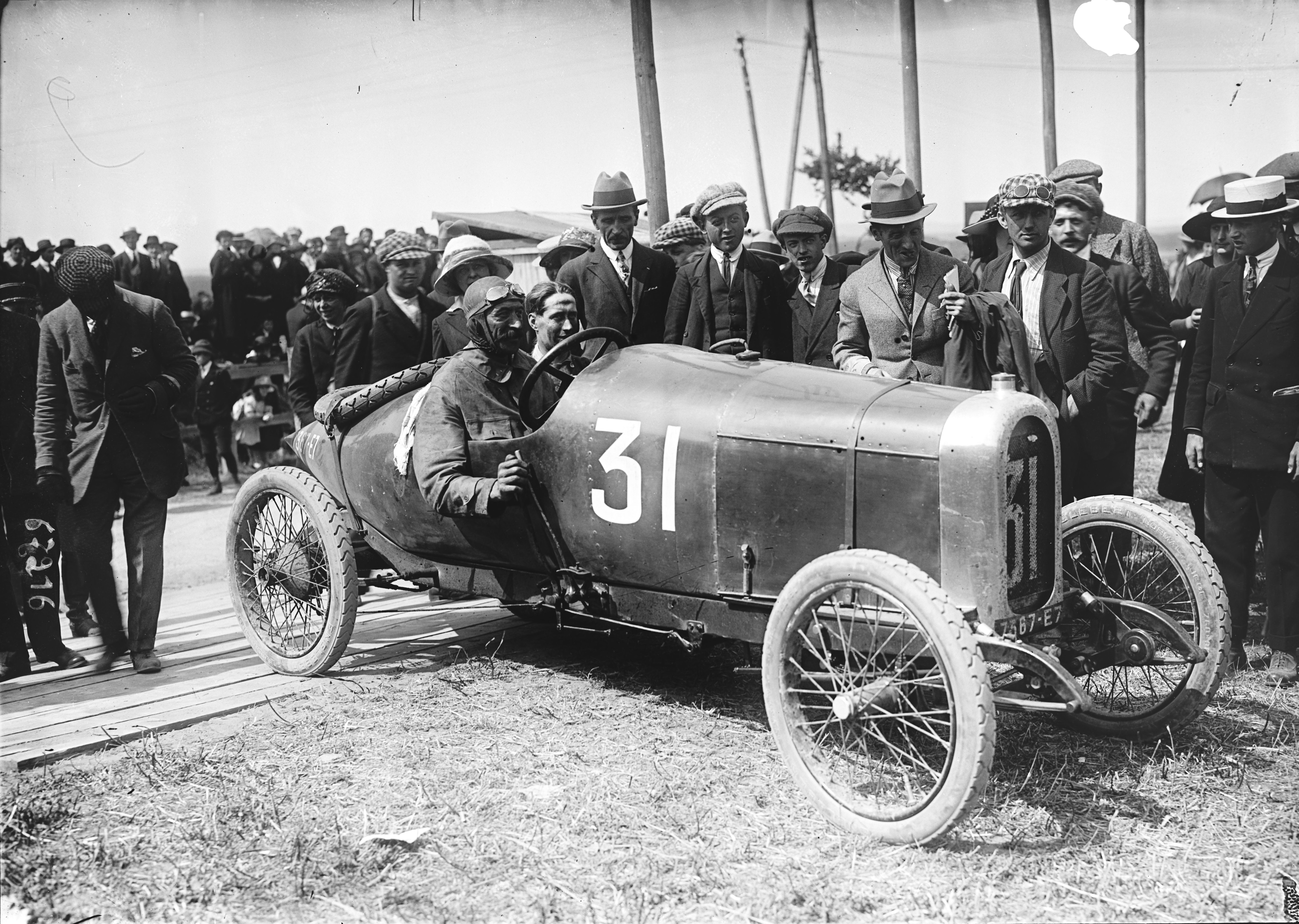 Louis Lefèvre at the 1921 Boulogne Grand Prix.